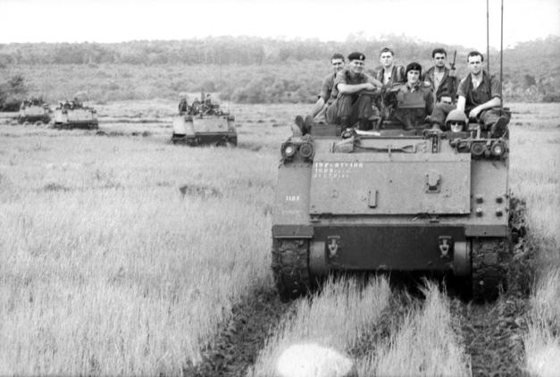 AWM Caption: VIETNAM. 1966-08-19. TROOPS OF 6TH BATTALION, ROYAL AUSTRALIAN REGIMENT (6RAR) ON BOARD ARMOURED PERSONNEL CARRIERS (APC'S) OF NO 1 APC SQUADRON WAITING TO RETURN TO BASE AT NUI DAT AFTER THE LONG TAN BATTLE DURING OPERATION SMITHFIELD.